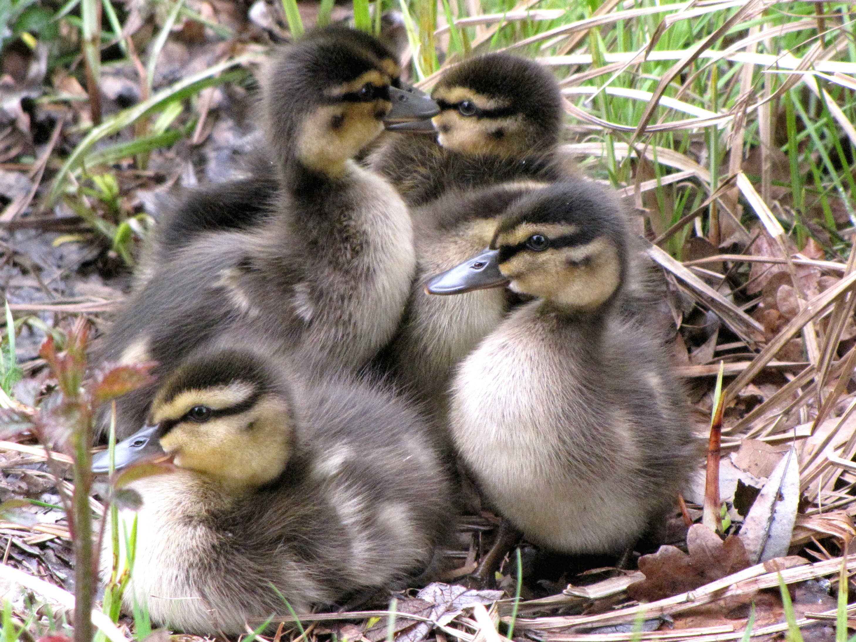 Mallard ducklings in United Kingdom.